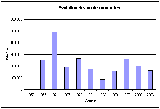 Evolution de ventes de motoneige- Evolution of snowmobiles sales with data from Bombardier snowmobiles url at [1]